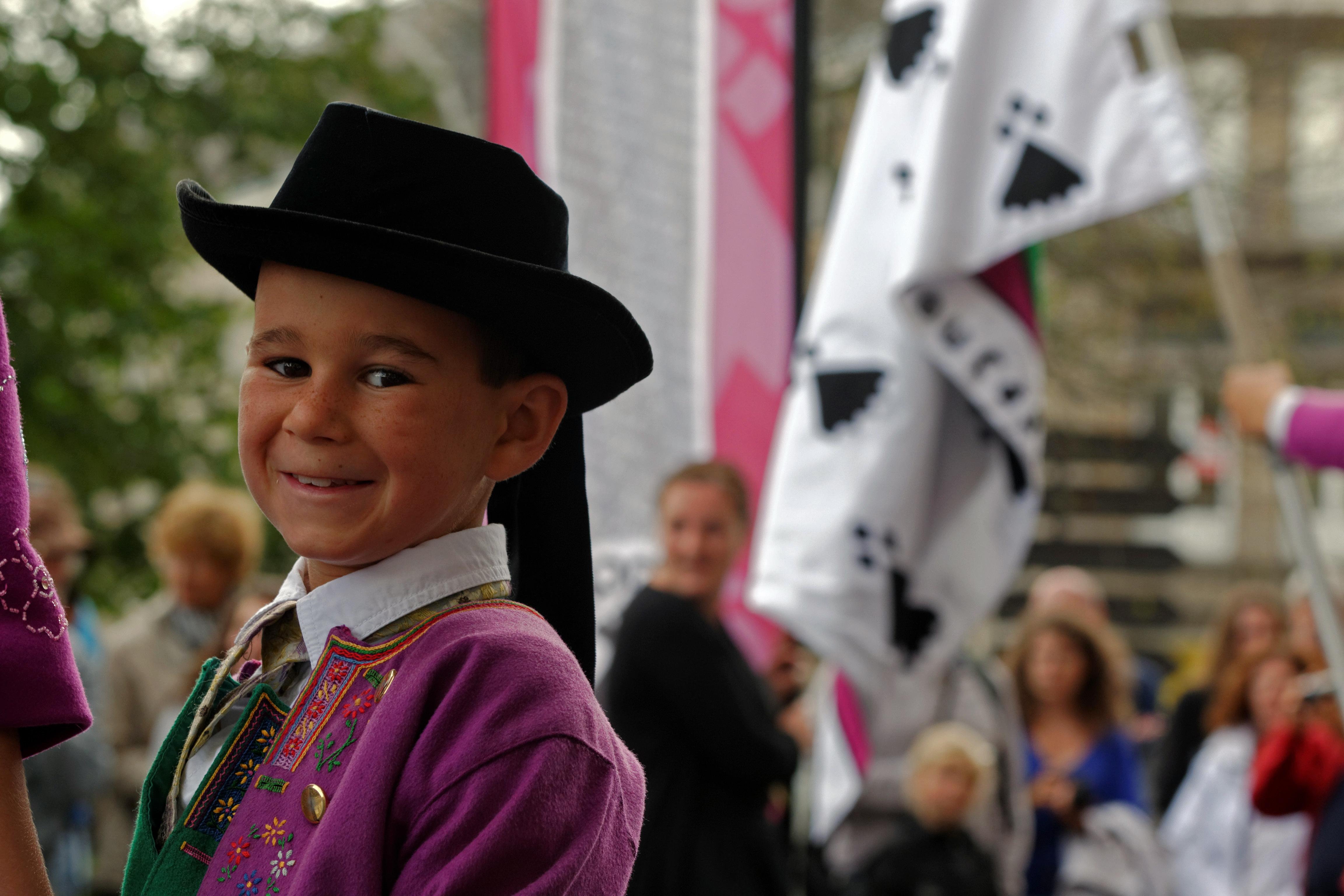 Child in Breton traditional costume parading with the association of Breton dances Bleunioù Sivi (Plougastel-Daoulas) during the Cornouaille Festival on Sunday, July 28th 2013 in the streets of Quimper (Finistere, Brittany, France).